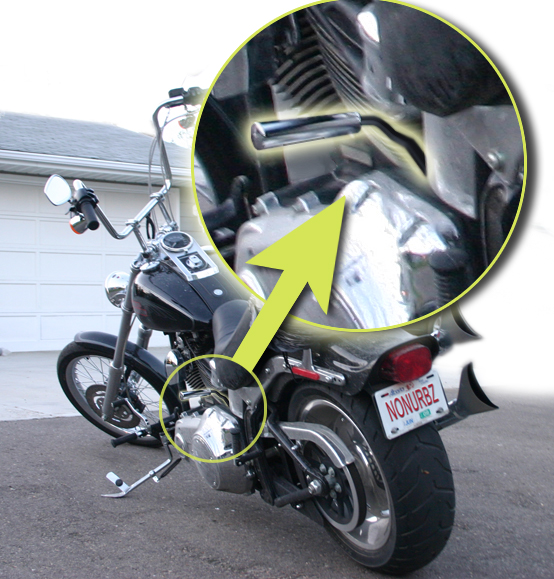 Motorcycle Owner Trent S. Photo courtesy of Trent S.